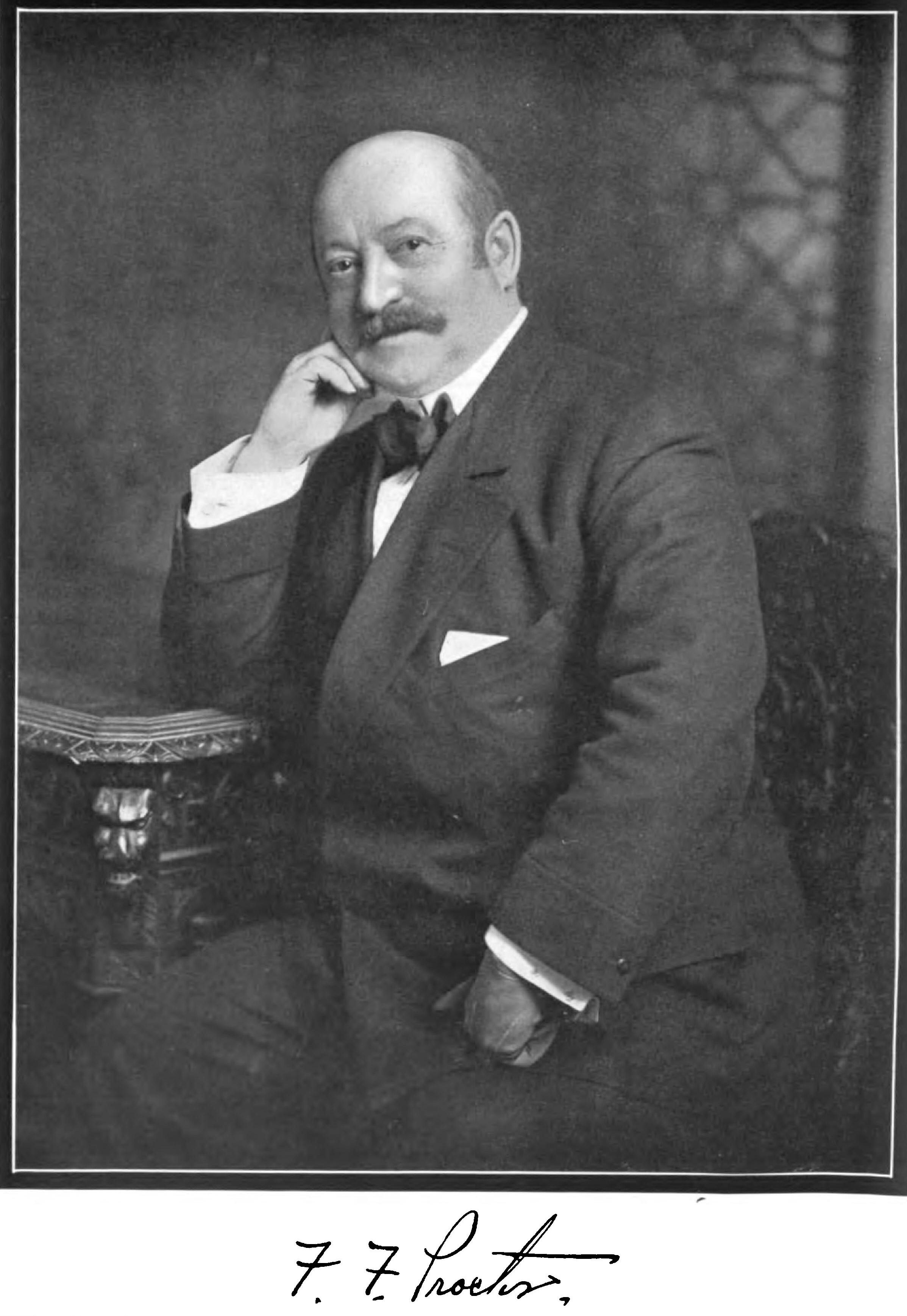 Frederick Freeman Proctor (March 17, 1851 – September 4, 1929), aka F.F. Proctor, was a vaudeville impresario who pioneered the method of continuous vaudeville.